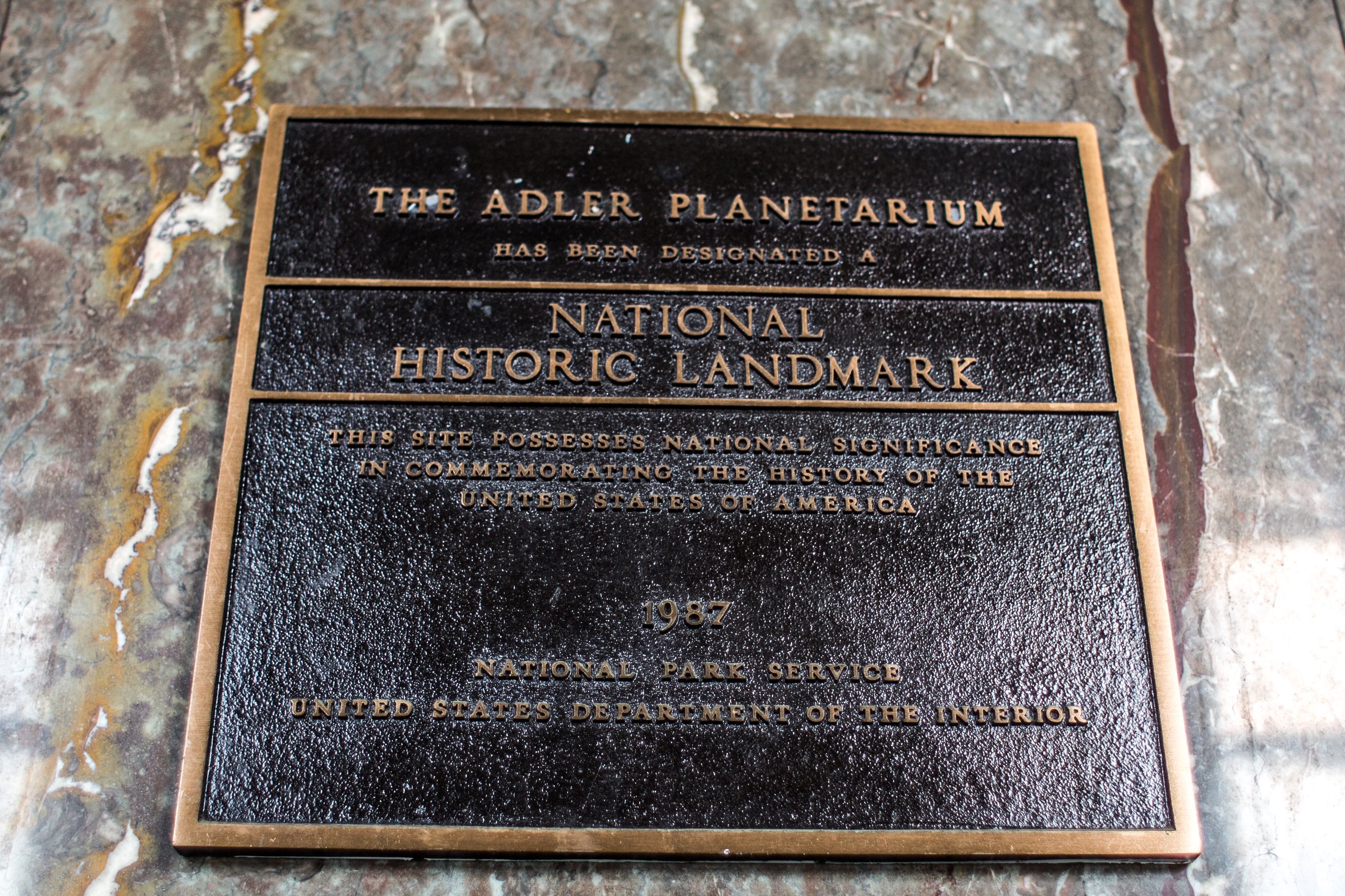 Adler planetarium landmark Chicago 2015-104